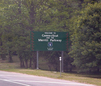 Entering the Merritt Parkway in Greenwich, Connecticut.